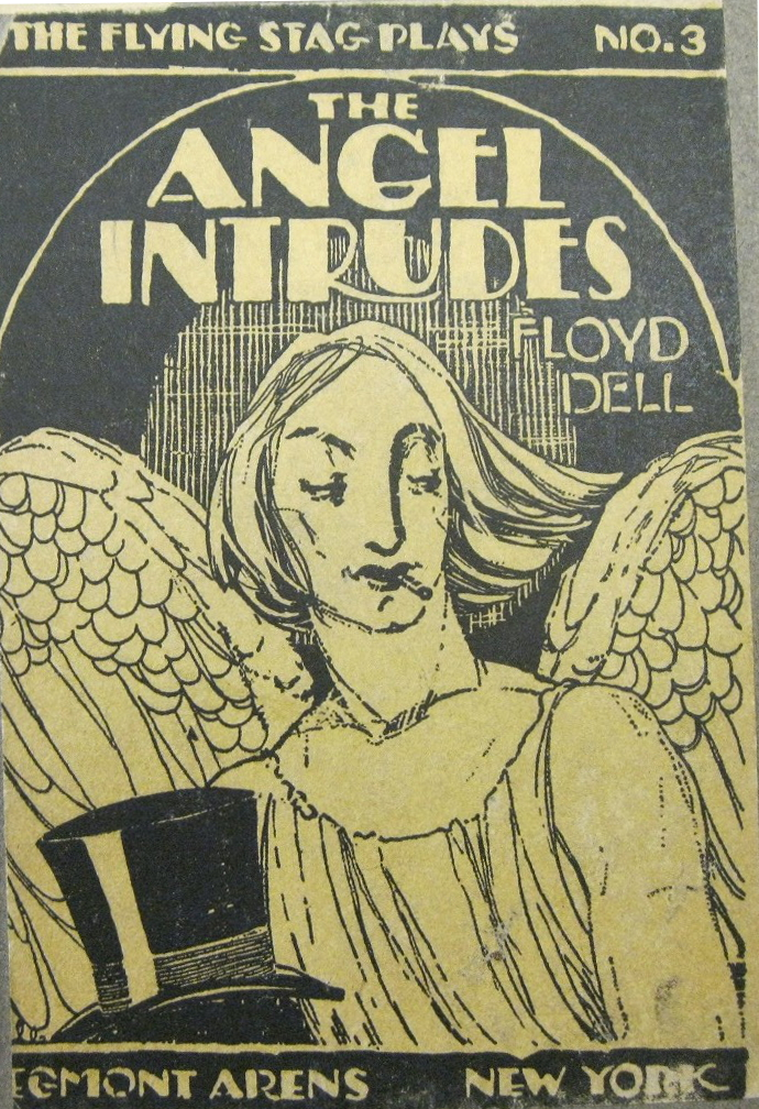 cover for floyd dell's angel intrudes